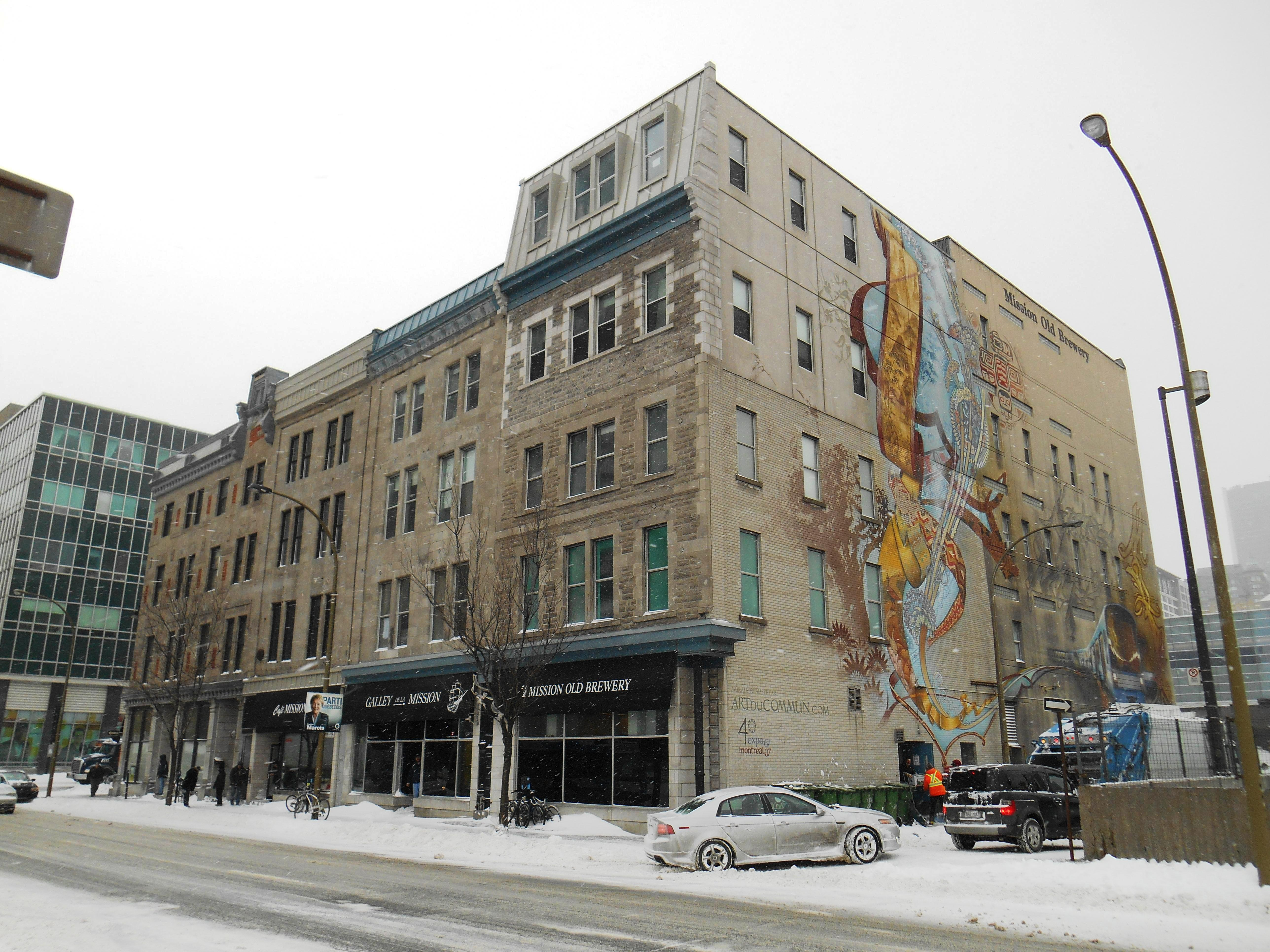 Old Brewery Mission, 7 Saint Antoine Street West, Montreal